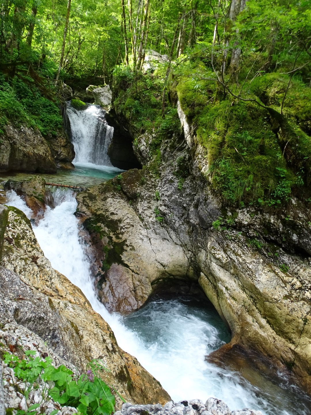 Šunik stream in the valley Lepena